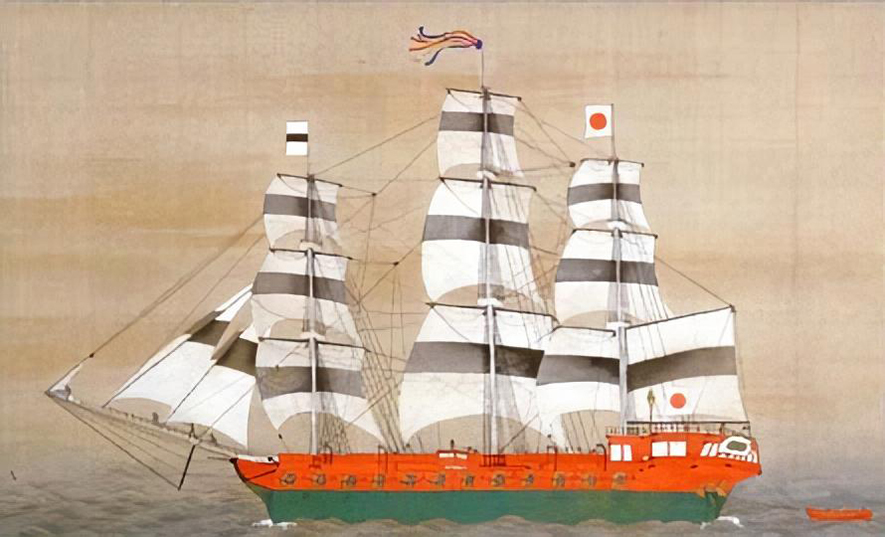 Tokugawa shogunate warship Asahi Maru in 1856.